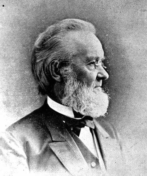 The spiritualist Joseph Rodes Buchanan.